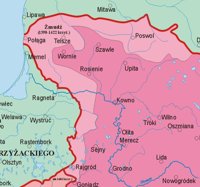 borders of Samogitia between 1386-1434 AD